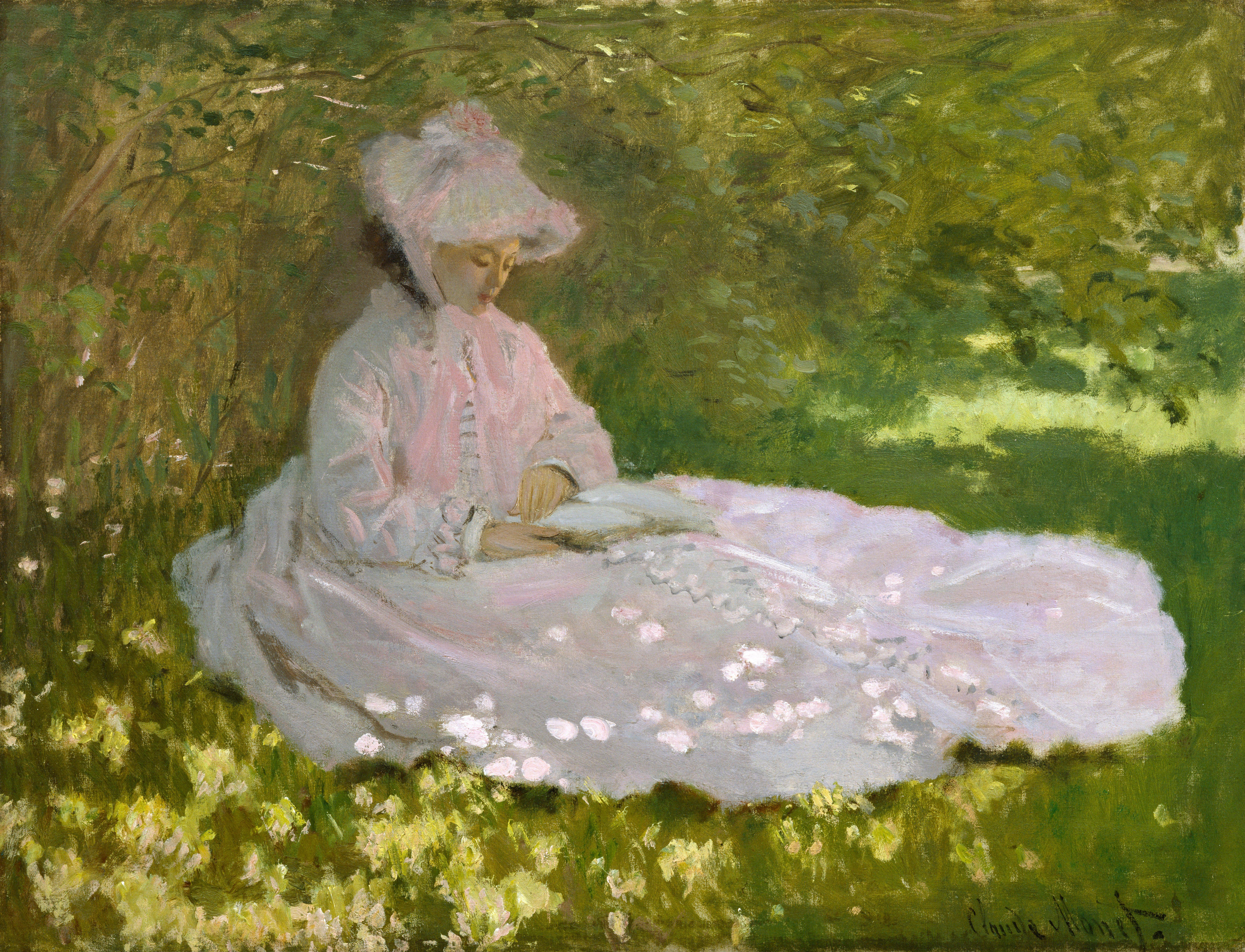 Monet moved to Argenteuil, a suburban town on the right bank of the Seine River northwest of Paris, in late December 1871. Many of the types of scenes that he and the other Impressionists favored could be found in this small town, conveniently connected by rail to nearby Paris. In this painting, Monet was less interested in capturing a likeness than in studying how unblended dabs of color could suggest the effect of brilliant sunlight filtered through leaves. During the early 1870s, Monet frequently depicted views of his backyard garden that included his wife, Camille, and their son, Jean. However, when exhibited at the Second Impressionist Exhibition in 1876, this painting was titled more generically, "Woman Reading."